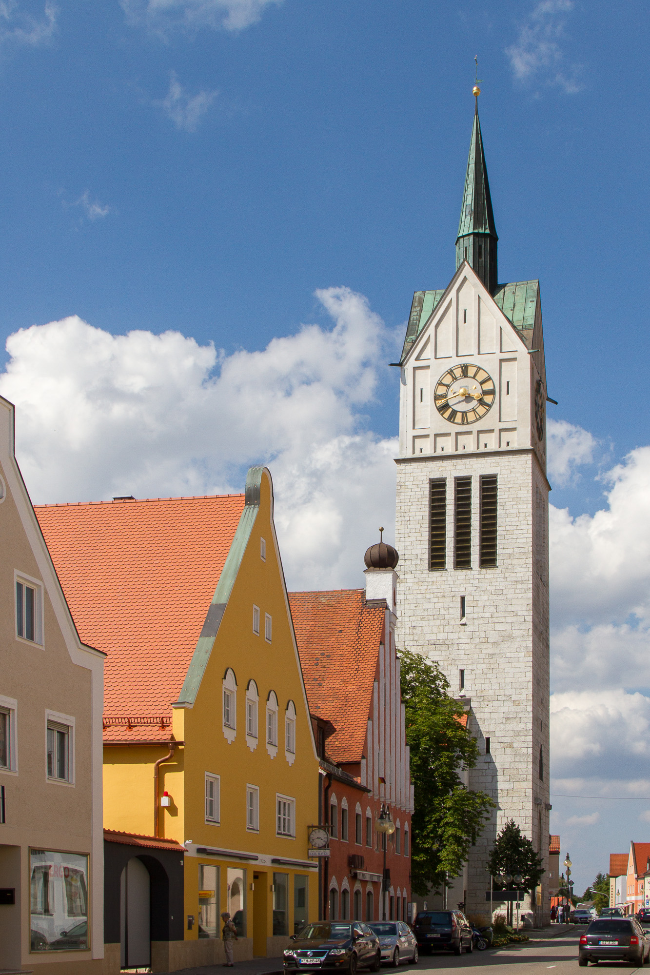 This is a photograph of an architectural monument.